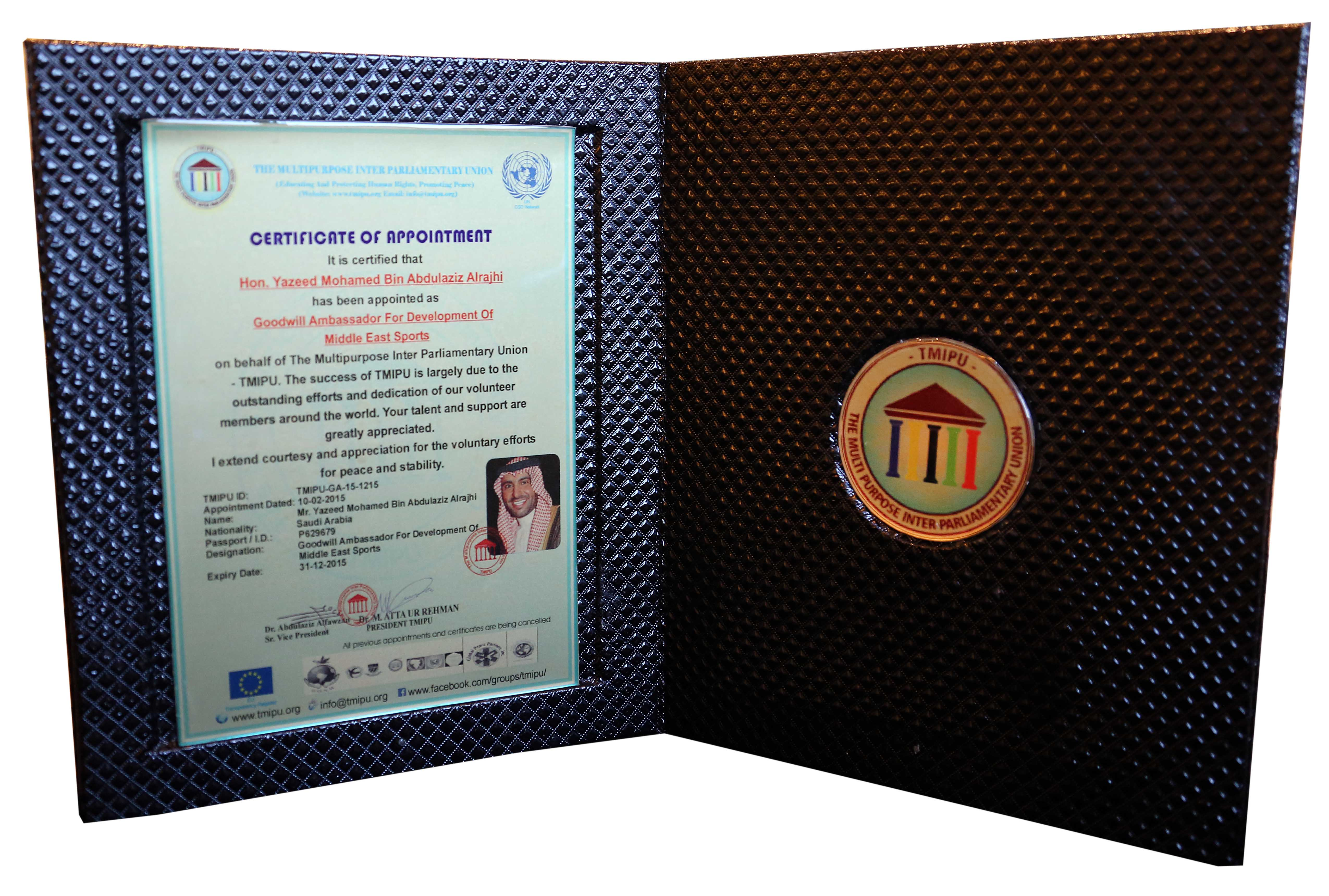 شهادة سفير النوايا الحسنة